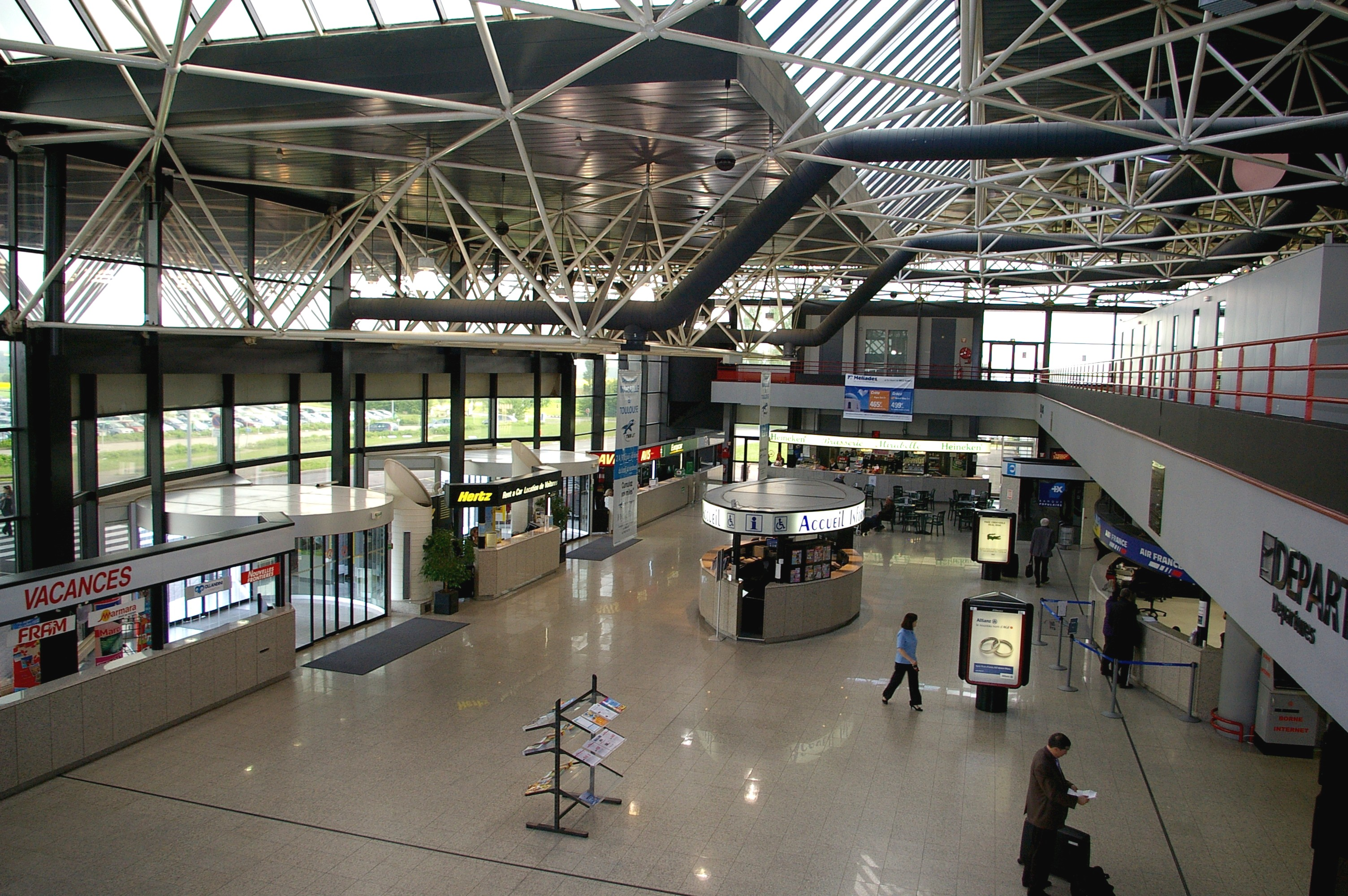 The interior of Metz–Nancy–Lorraine Airport